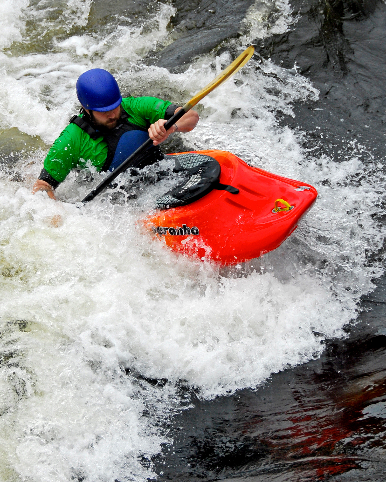 Unknown paddler using a playboat at Paddle for the People, July 2007, Manchester New Hampshire, Crackpipe playwave on Merrimack River